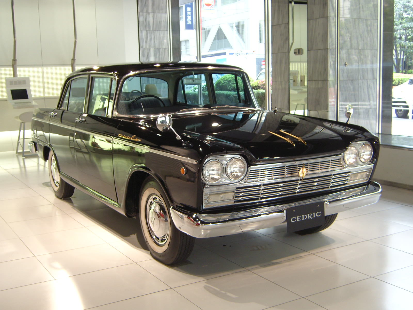 Nissan Cedric Custom(H31)